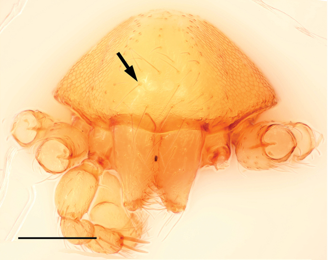 Bannana crassispina male. Prosoma (cephalothorax) anterior view. Arrow indicates reduced eyes. Scale bar = 0.2 mm.